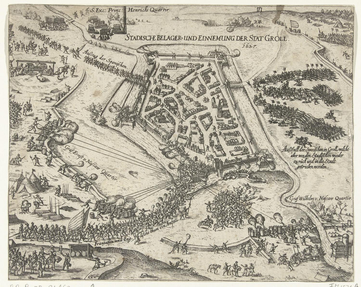 Siege of Groenlo in 1627 by Frederik Hendrik